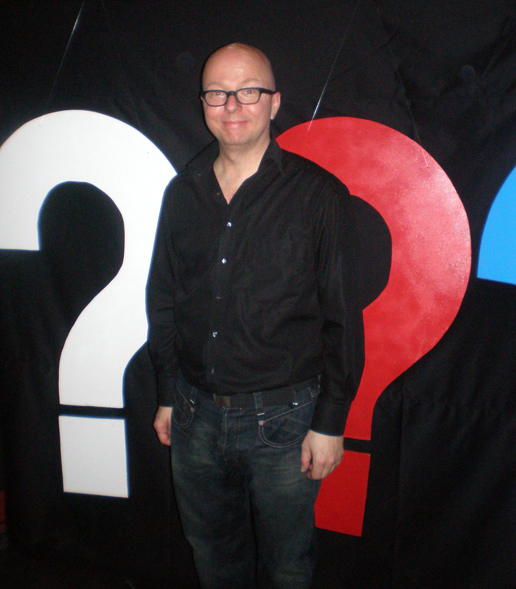 Oliver Rohrbeck in front of 3 question marks